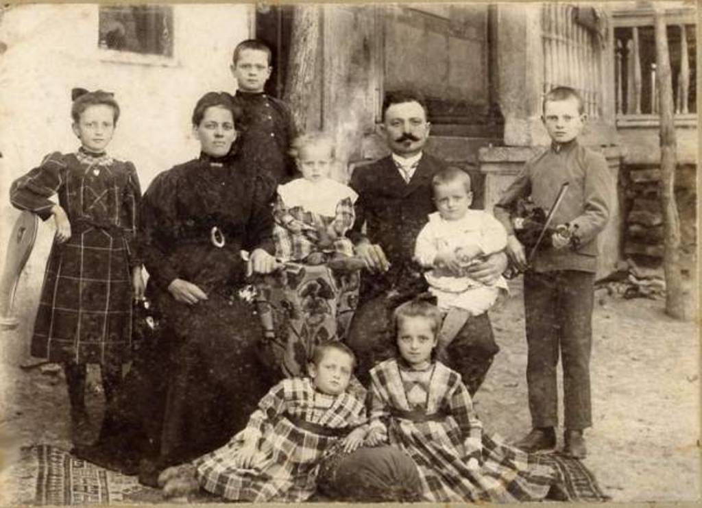 Swabian family in Helenendorf (now Khan), the Caucasus in 1910 - Helenendorf was created in 1819 by 194 Swabian families